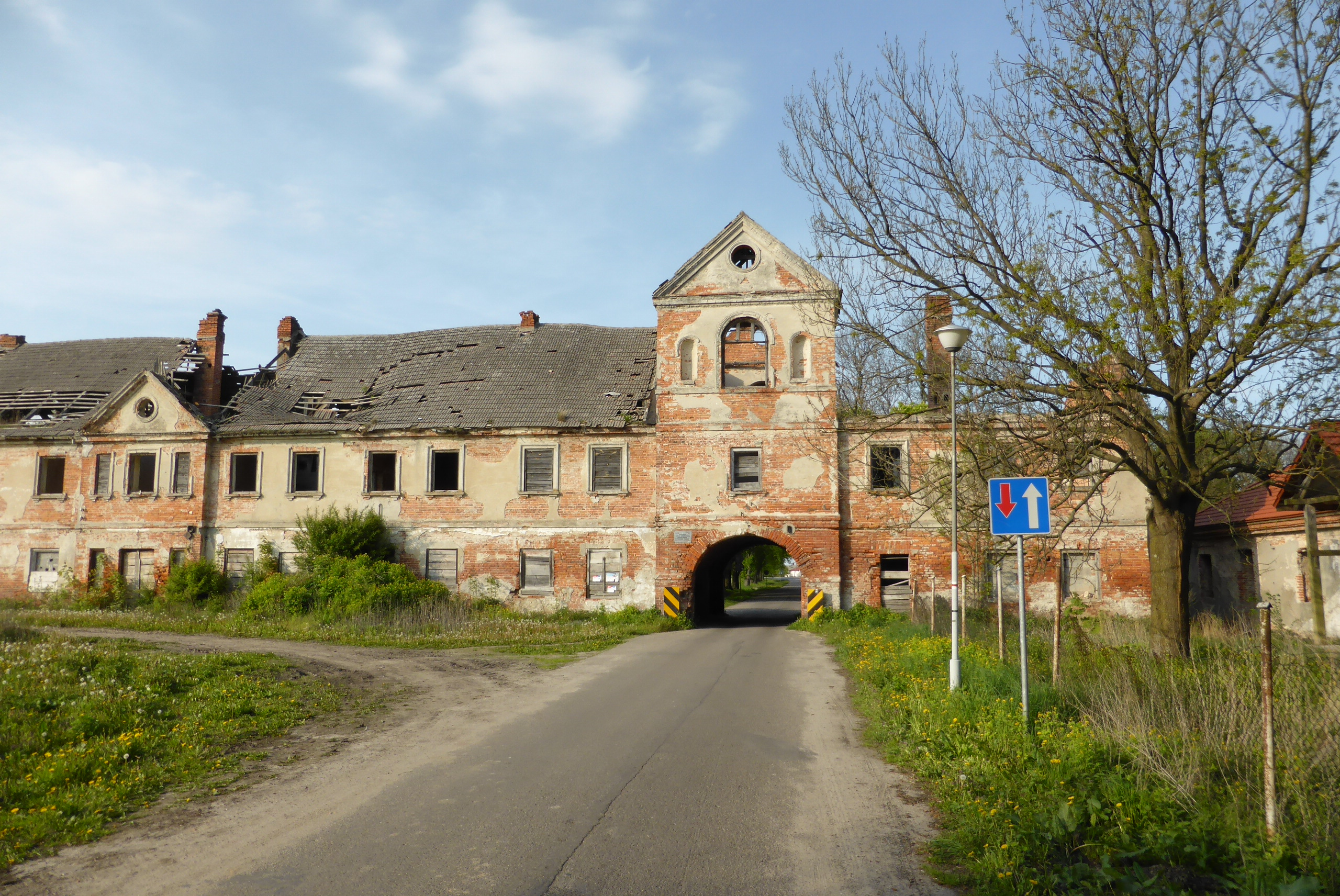 Ruins of the palace in Różanka, Lublin Voivodeship, Poland